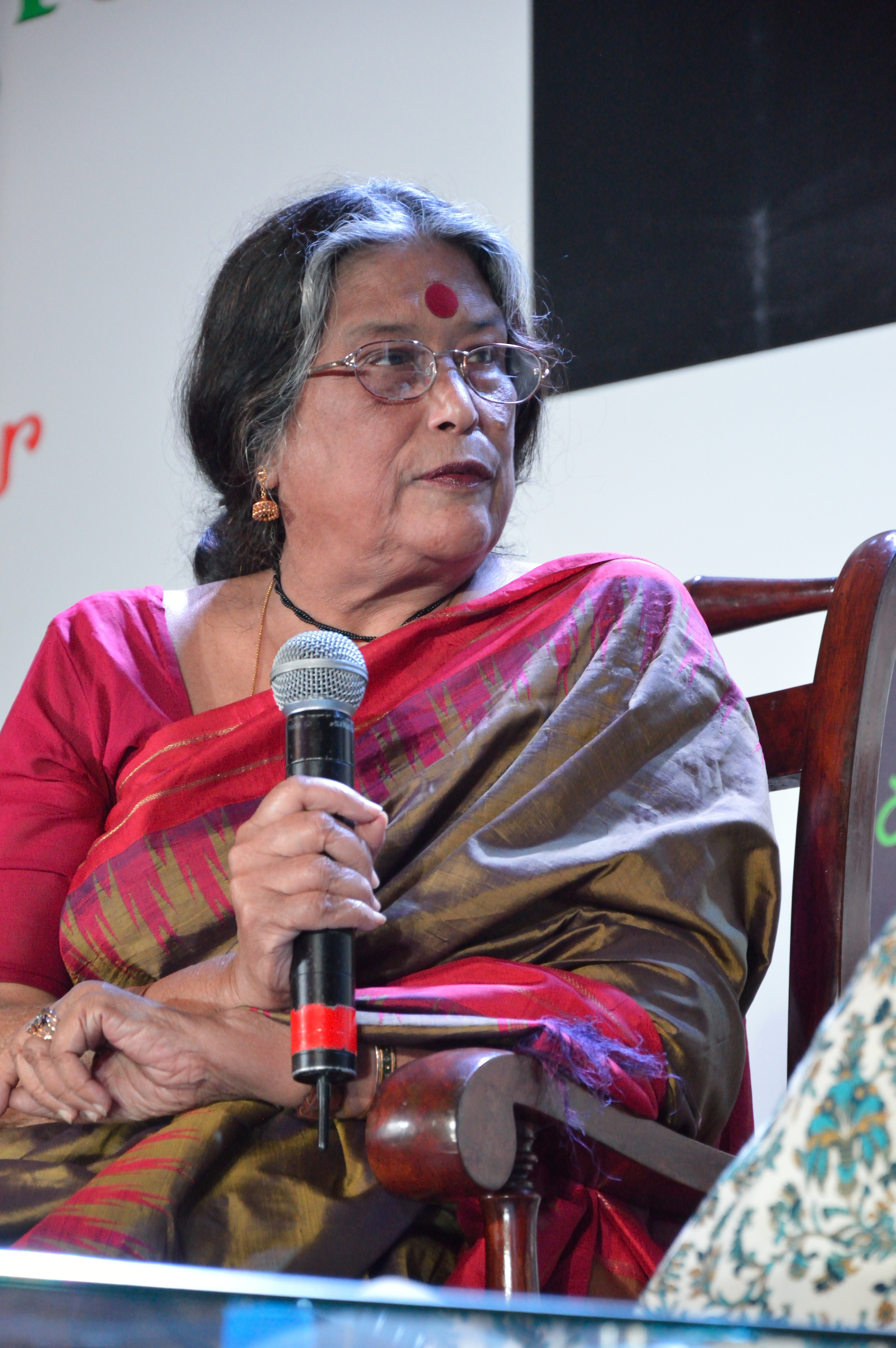 Nabaneeta Deb Sen is one of the most versatile female Bengali writers in India today. She has published more than 80 books in Bengali, which include novels, short stories, plays, literary criticism, personal essays, travelogues, humour writing, translations and children’s literature. Her first collection of poems, Pratham Pratyay, was published in 1959. Ami Anupam, her first novel, was published in 1976. Some of her other well-known works are Bama-bodhini, Nati Nabanita, Srestha Kabita and Sita Theke Suru. She is widely respected in the academia as well, and has a Masters degree from Harvard University and a PhD from Indiana University. She has received many awards including the Celli Award from the Rockefeller Foundation and the Sahitya Akademi Award. Deb Sen lives in Kolkata and has three daughters, two with former husband Amartya Sen. This shot was taken during the annual 'Kolkata Literary Meet 2013' was a part of the 'International Kolkata Book Fair 2013' held at the Milan Mela ground. It is a five day talk and interaction with general public of renowned persons from India and abroad.